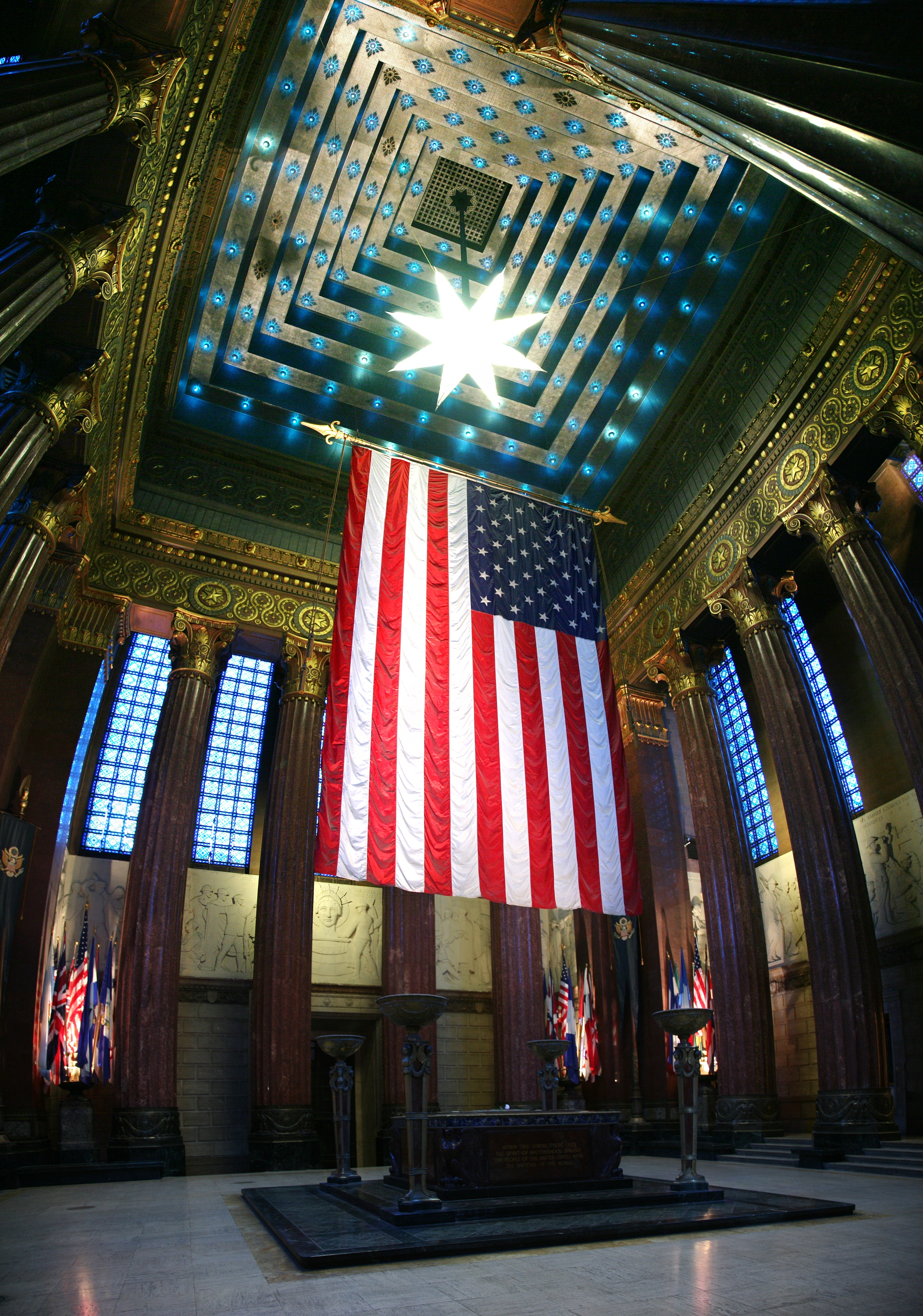 Shrine room of the Indiana World War Memorial, Indianapolis This image was created with Hugin.